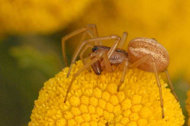 Pachygnatha clercki from Commanster, Belgian High Ardennes .